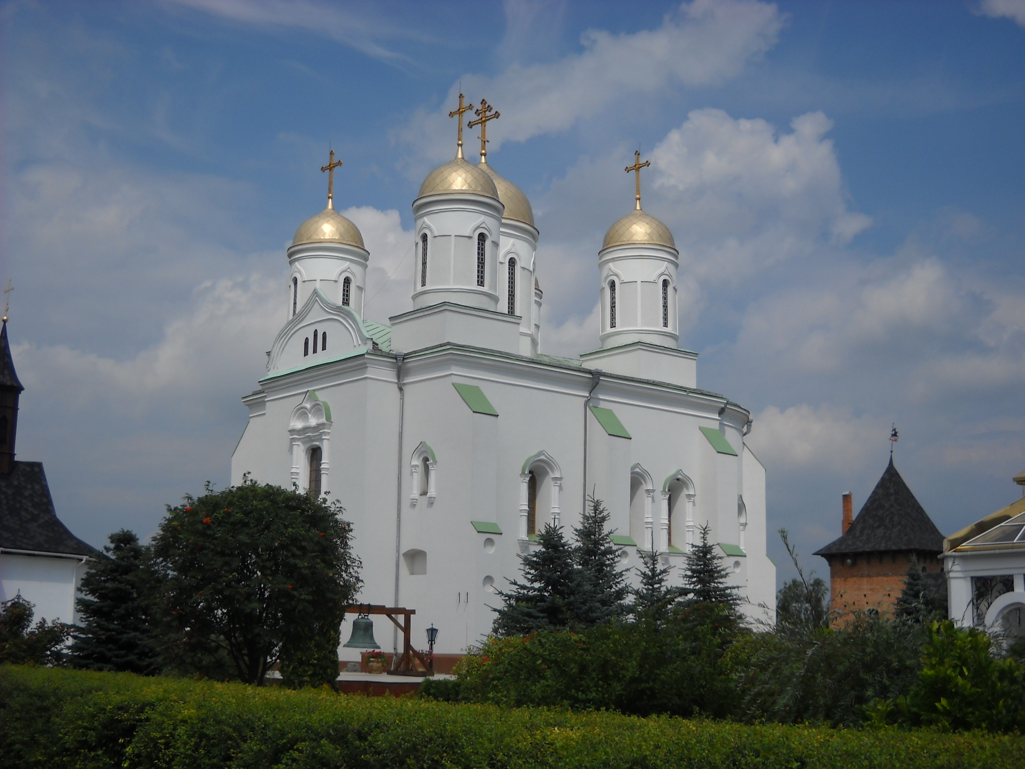 Dormition Cathedral in Zimne Monastery